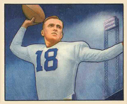 American football player John Rauch on a 1950 Bowman card.